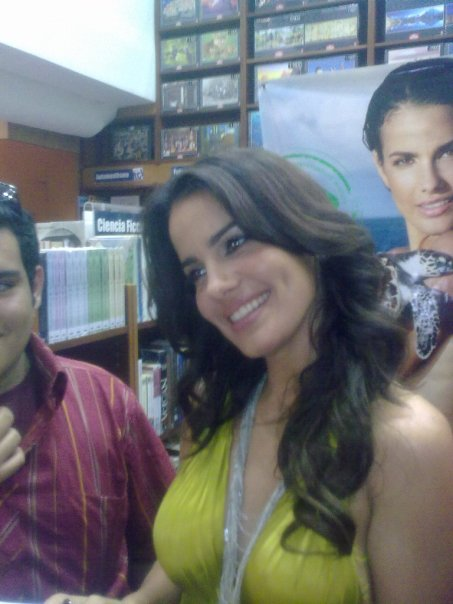 Norelys Rodriguez in the Firm of Rodriguez Norelys Calendar 2010 Al Natural